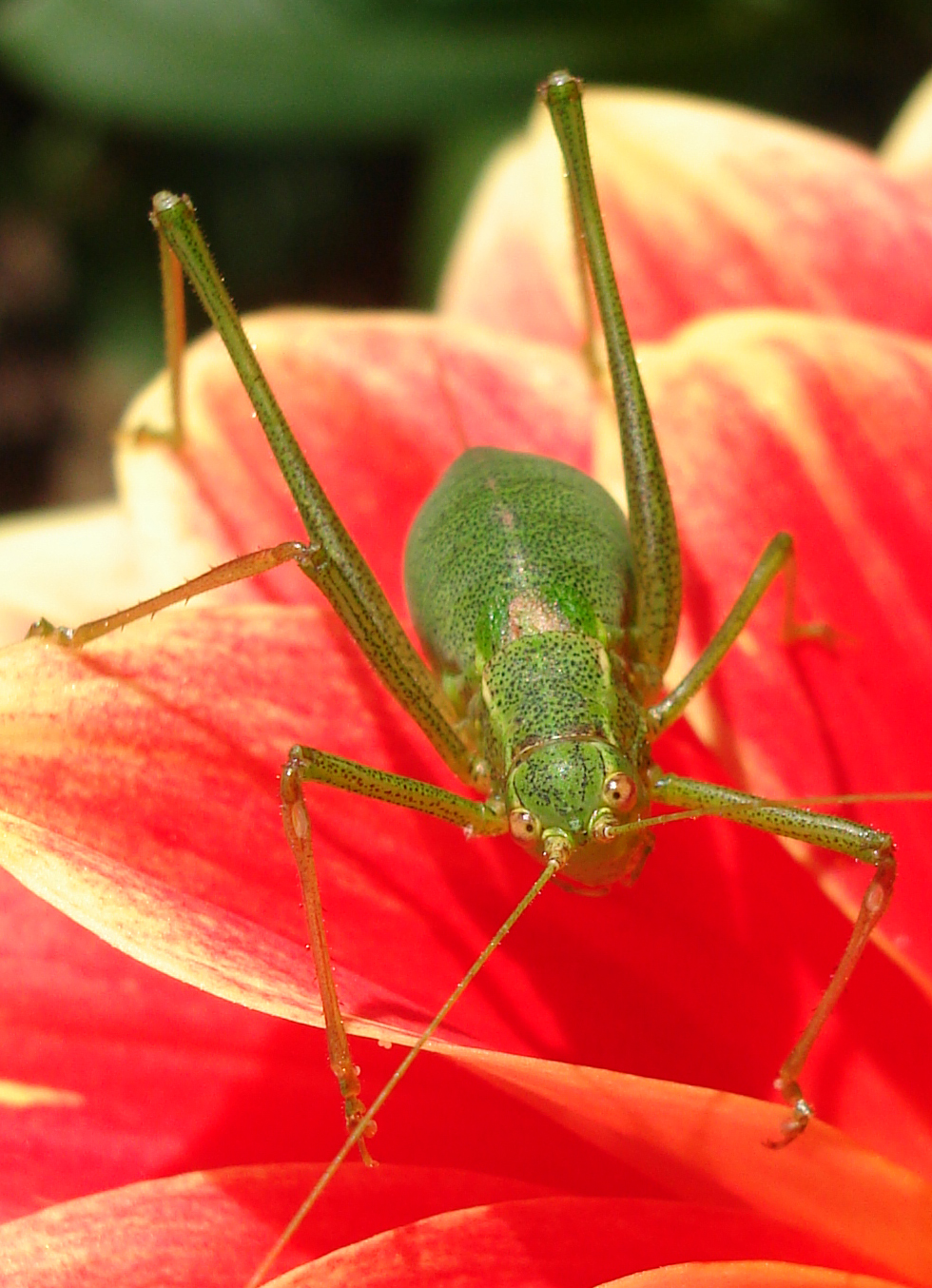 Leptophyes punctatissima female on a dahlia flower